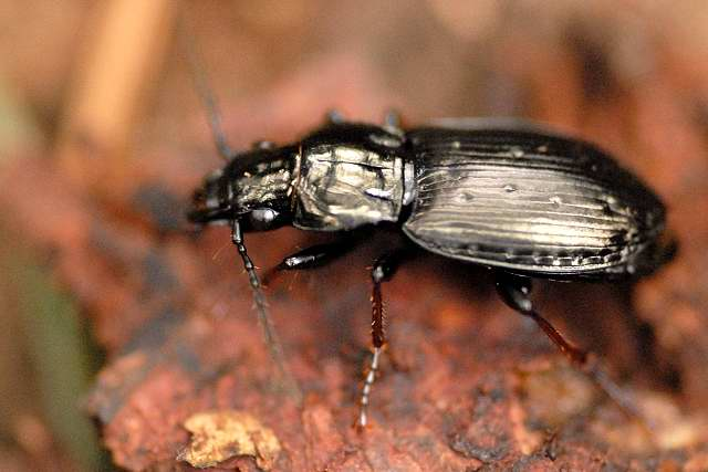 Pterostichus oblongopunctatus from Commanster, Belgian High Ardennes .